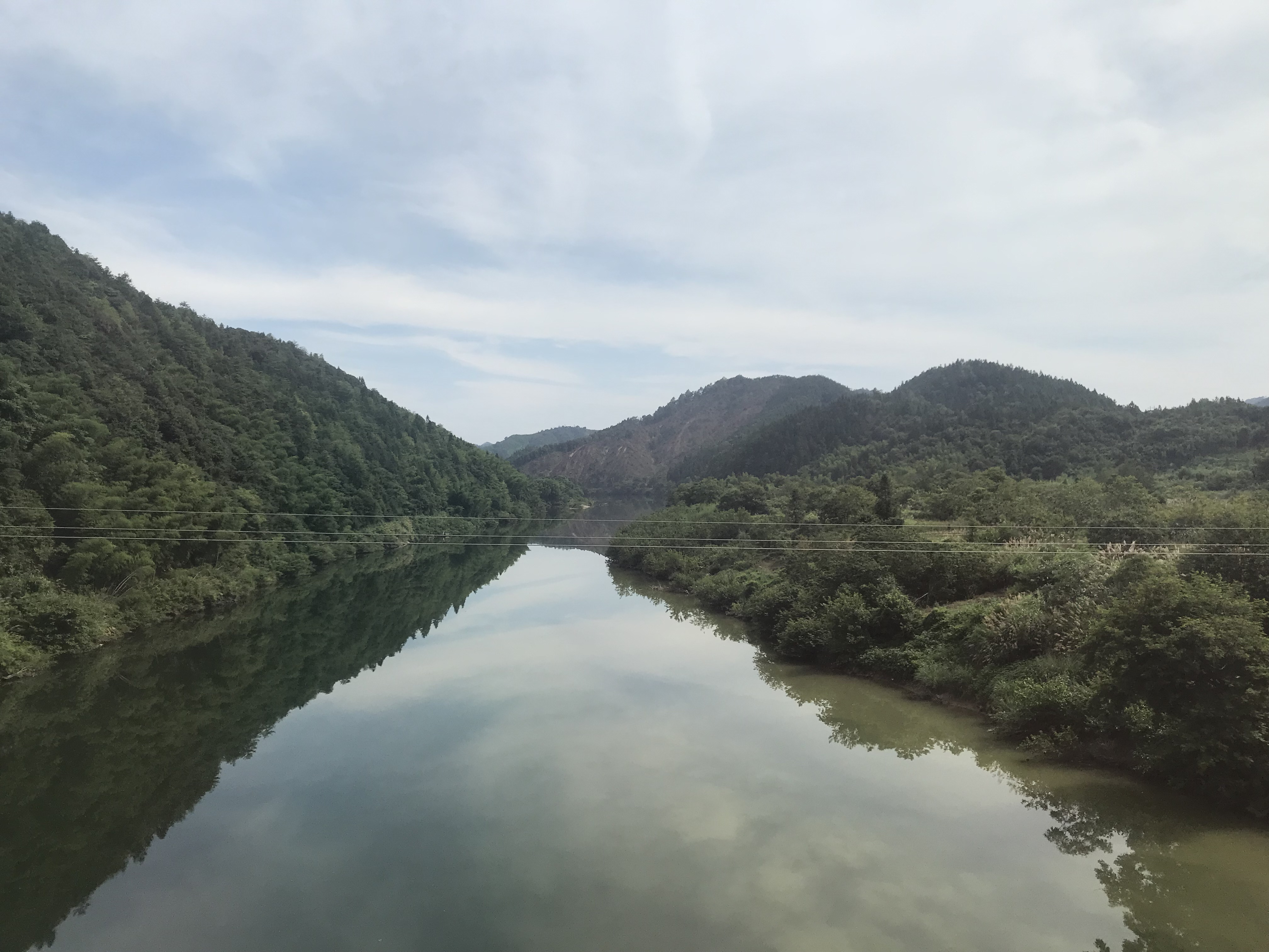 201806 Changjiang in Luxi, Qimen near Daohu